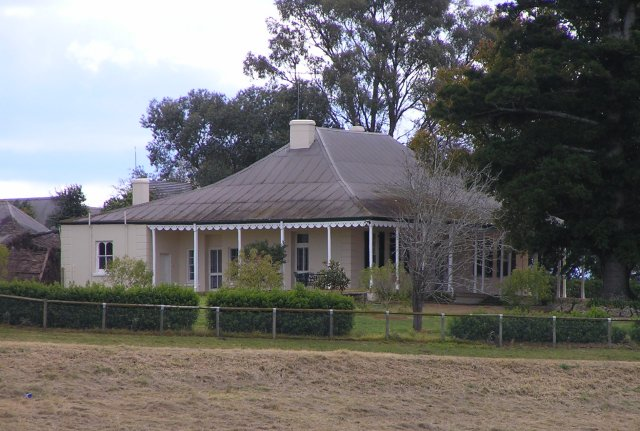 Kelvin, Bringelly